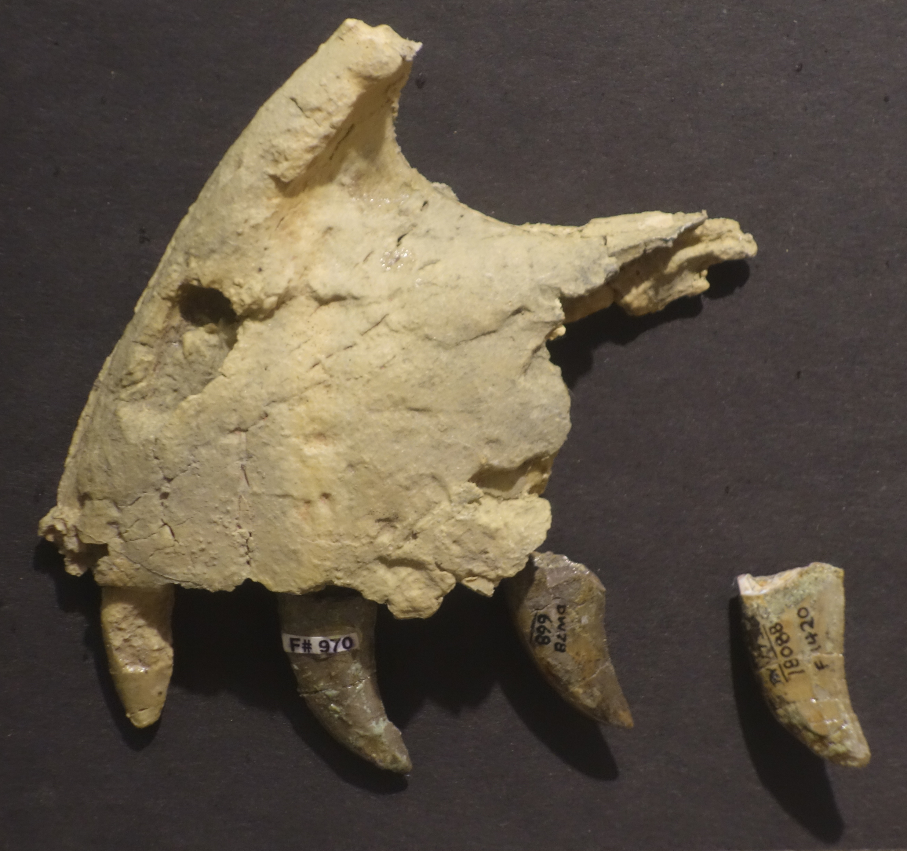 Utahraptor premaxilla, on display at the BYU Museum of Paleontology.